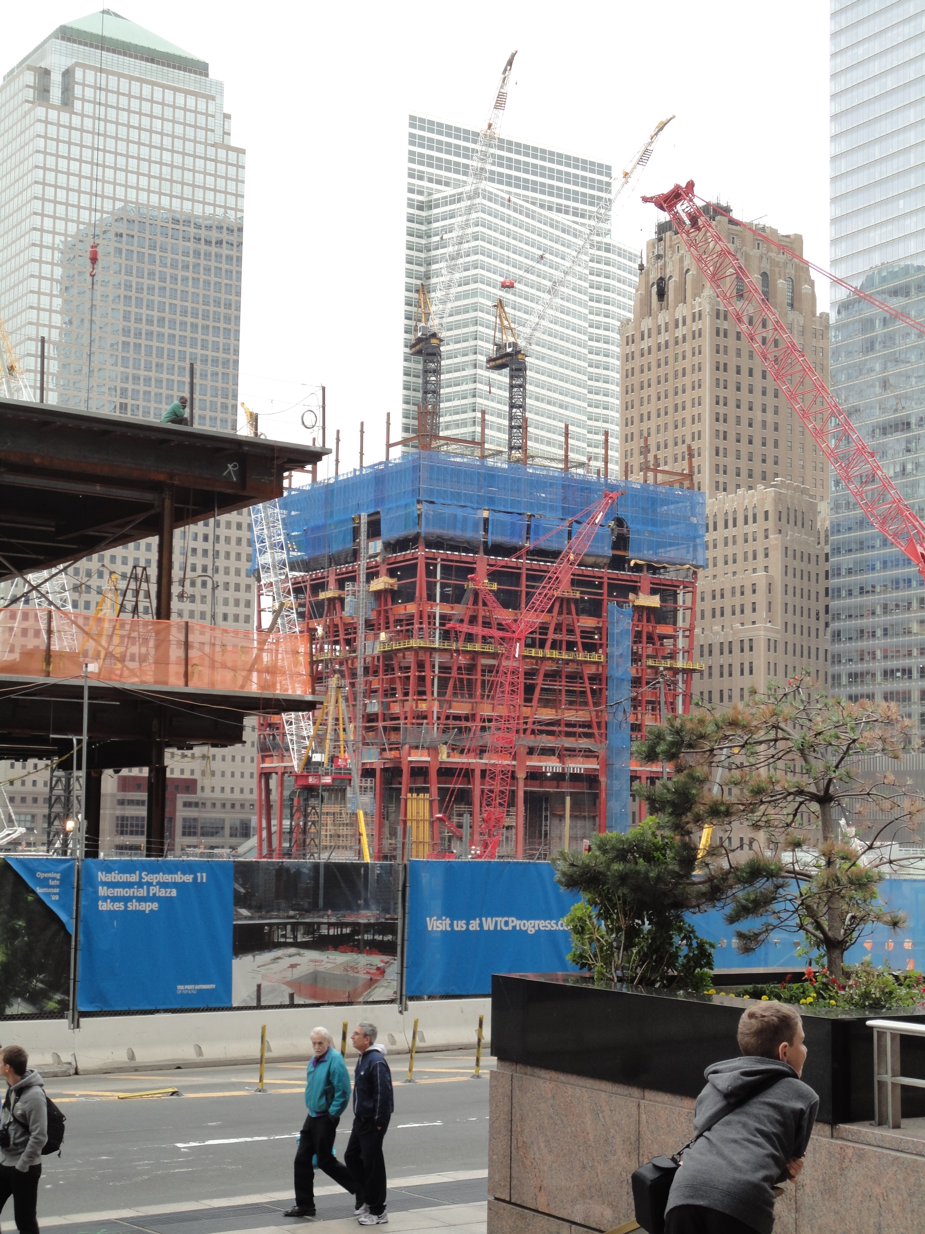 Construction of One World Trade Center May 11, 2010.